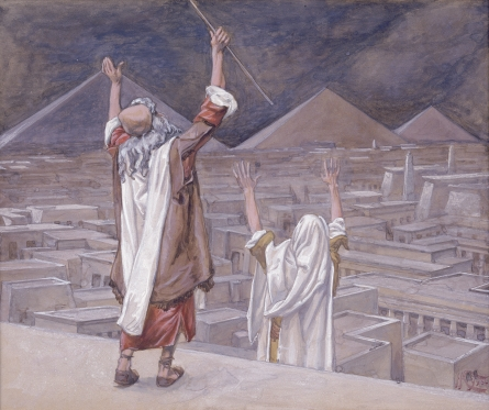 The Plague of Locusts, c. 1896-1902, by James Jacques Joseph Tissot (French, 1836-1902), gouache on board, 7 3/4 x 9 3/8 in. (19.8 x 23.9 cm), at the Jewish Museum, New York